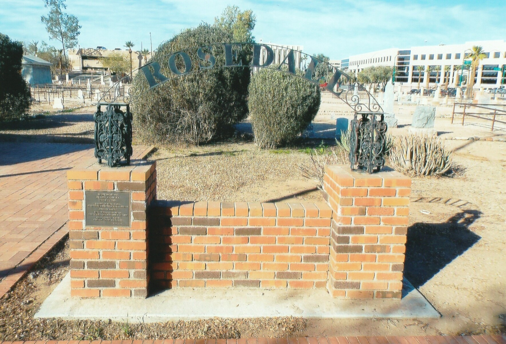 Entrance to the "Rosedale" Cemetery of the Pioneer and Military Memorial Park.